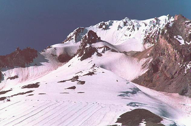 I took this photo in June of 1991. It shows the summit ridge, crater rock and Palmer Glacier skiing tracks on Mt. Hood, Oregon